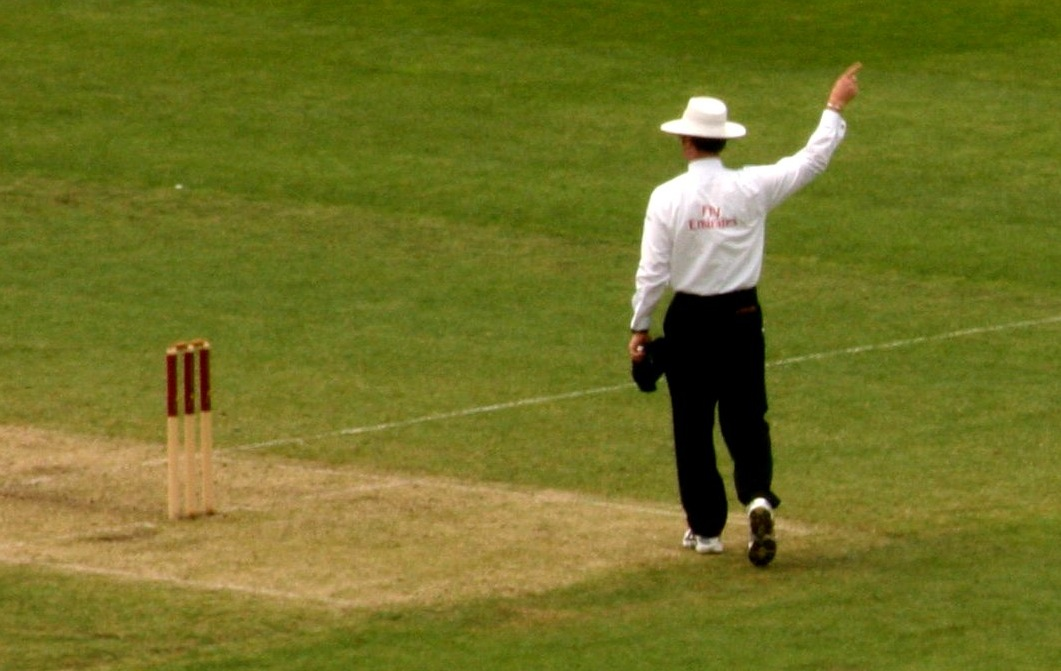 I'm not entirely sure what the umpire (Simon Taufel) is signalling, but I'm sure it's important. Australia v World XI Sydney Cricket Ground, day 1 of 6